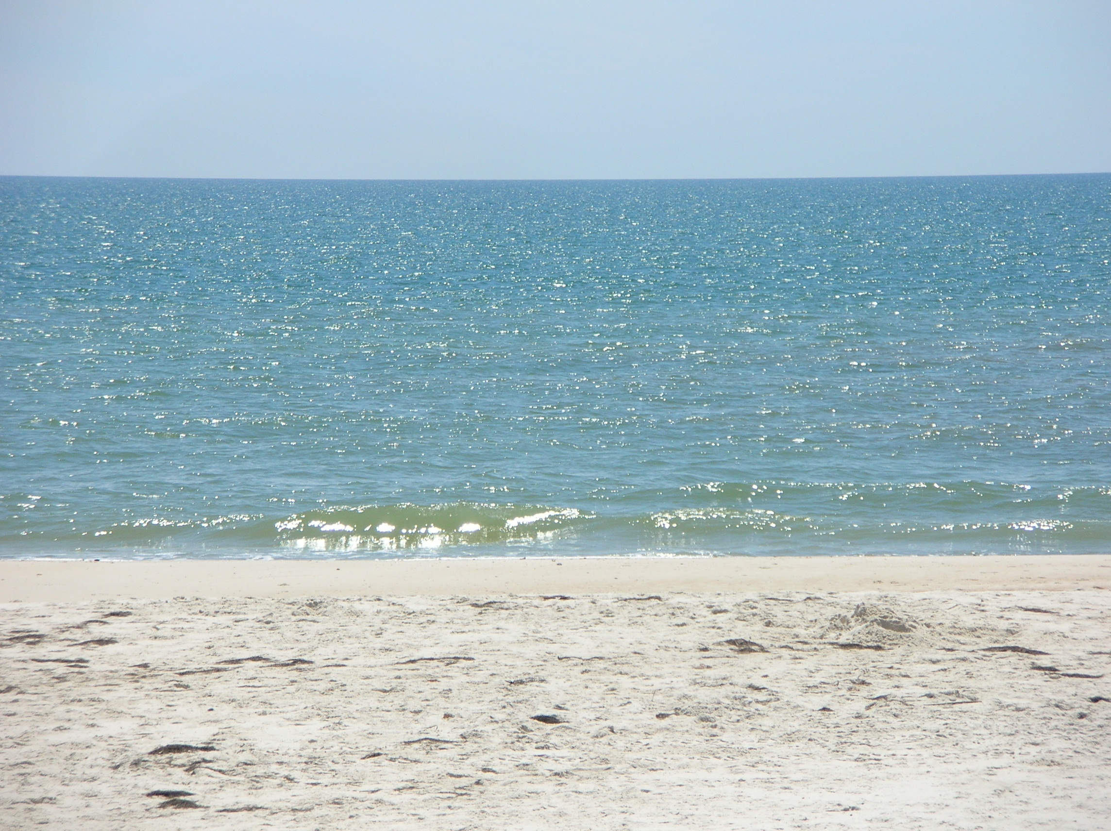 My personal picture of the beach at St. George Island State Park